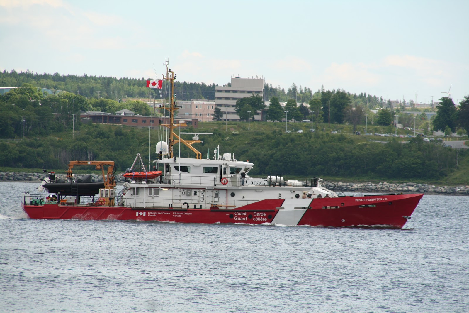 CCGS Private Robertson V.C. on Trials, Halifax Harbour, July 3/2012